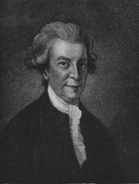 Thomas Sheridan, Richard Brinsley Sheridan's father.